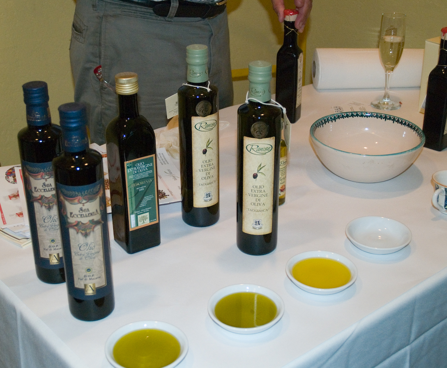 Oil tasting, BAIA October 2006 Wine Tasting, California, USA